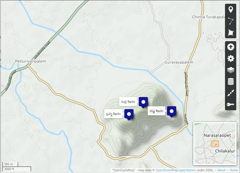 Hills of Kotappa konda. Rudra, Brahma, Vishnu hills marked.